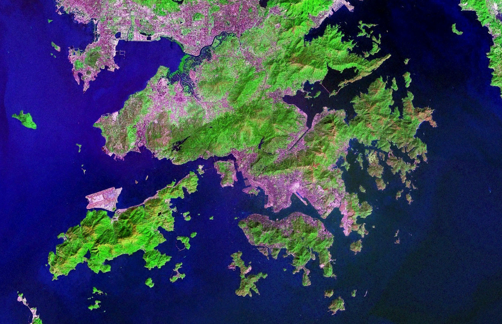 Satellite Image of Hong Kong. Urban areas are in pink, vegetation is in green.